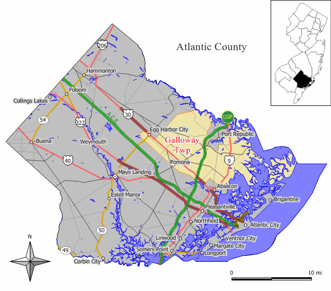 Locator map of in Monmouth County, New Jersey